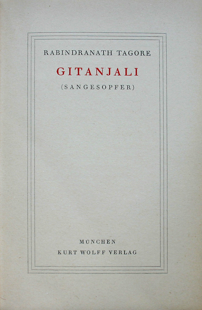 title, preliminary page of Rabindranath Tagore, Gitanjali. Kurt Wolff Verlag München 1921, Edition: 48.-67 thousand; printed „in summer 1921“ by Poeschel & Trepte, Leipzig